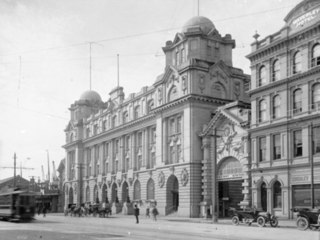 The old General Post Office (and the entrance to the Queen Street Railway Station next to it) in Auckland City, New Zealand. The building now houses the Britomart Transport Centre. The Waverly hotel at the right. Extended information on origin webpage reads: General Post Office and the Queen Street Railway Station, Auckland [ca 1911] / Reference number: 1/2-000609-G / 1 b&w original negative(s). Dry plate glass negative 4.5 x 6.5 inches. Horizontal image / Part of Price, William Archer, d 1948 :Collection of post card negatives (PAColl-3057) Photographic Archive / Scope and contents: View of the newly-constructed General Post Office building. To the right is the entrance to the Queen Street Railway Station and the Waverley Hotel. To the left of the post office building is R & W Hellaby Ltd (butcher shop) with further floors under construction above Hellaby's. Horse-drawn carriages are waiting outside the post office and a car is parked in front of the hotel. Photograph taken by William A Price ca 1911-1912. / Historical notes: William Archer Price lived and practised in Queen Street, Northcote, 1909-1910. / Source: New Zealand Post Office directories